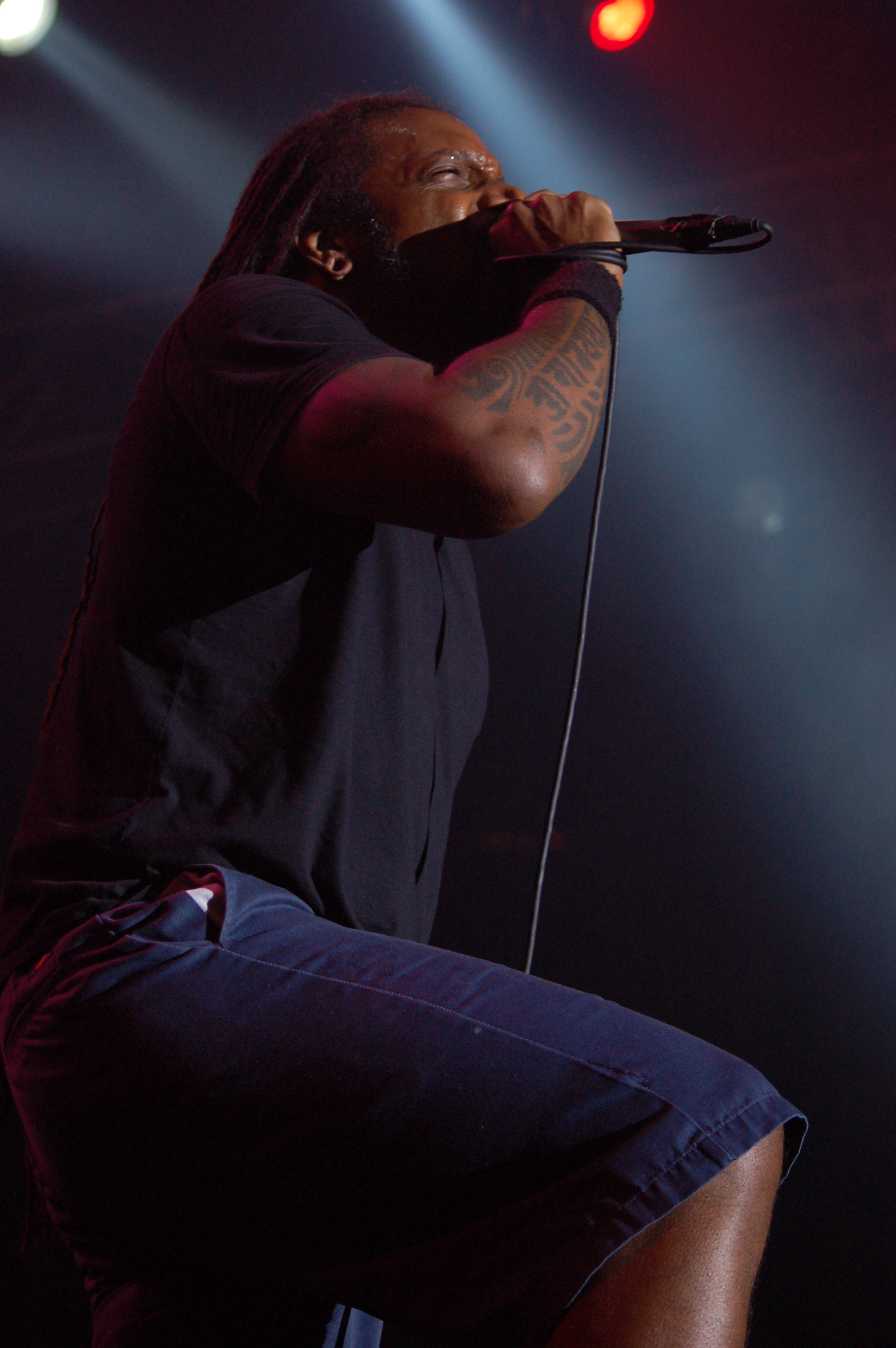 Derrick Green from Sepultura during Metalmania 2007 festival